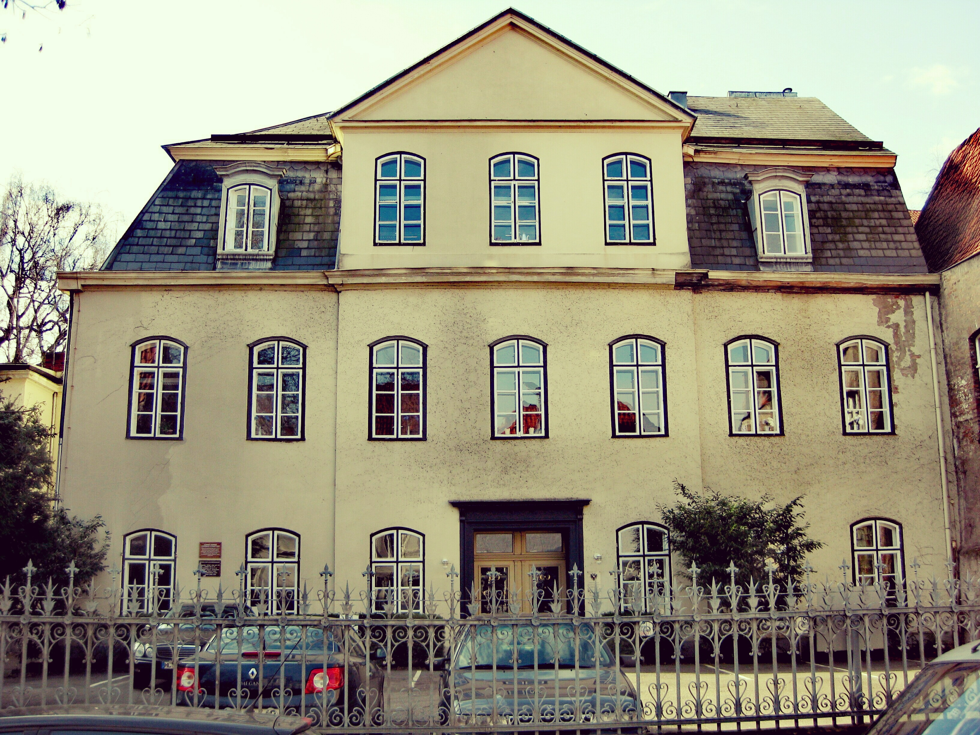 Baroque Palais Brömserhof in the historic Old Town of Lübeck, Schildstr. 12-14, office of the cities senator for cultural and social affairs